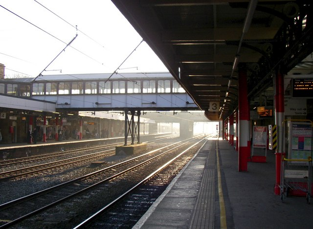 Lancaster Station Platform 3 looking south.